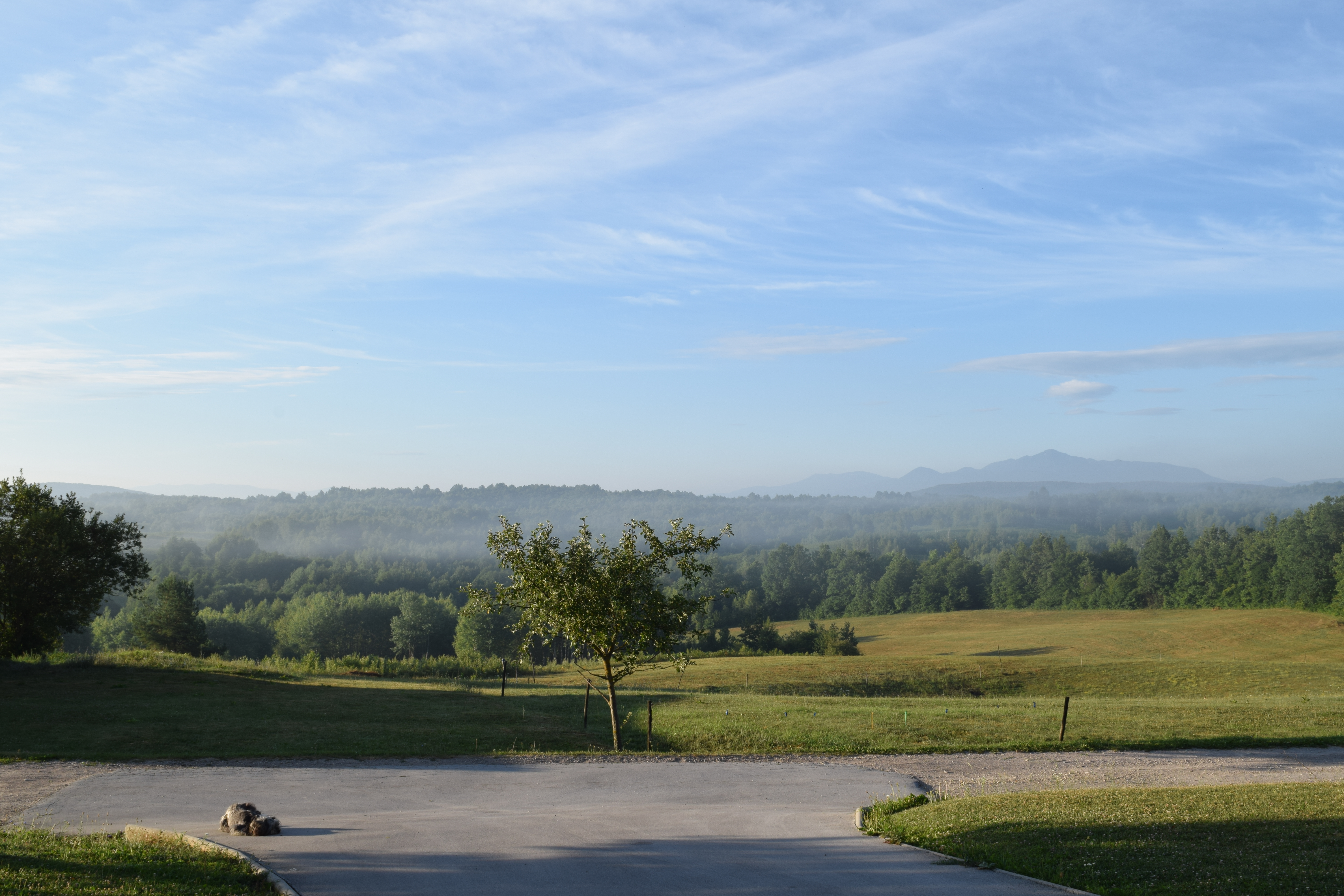 View from Apartment Melissa located on Rakovica, Lipovac 5, 47245, Plitvička Jezera, Croatia (road, pretty landscape, and a dog)